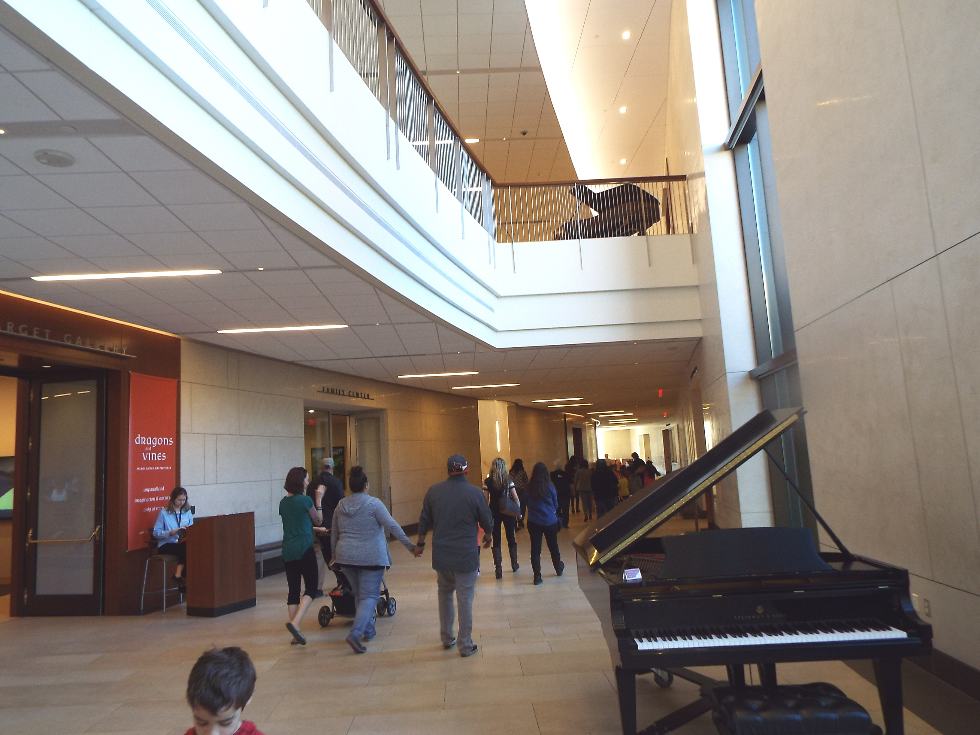 Inside the Musical Instrument Museum of Phoenix located at 4725 E. Mayo Boulevard in Phoenix, Az.